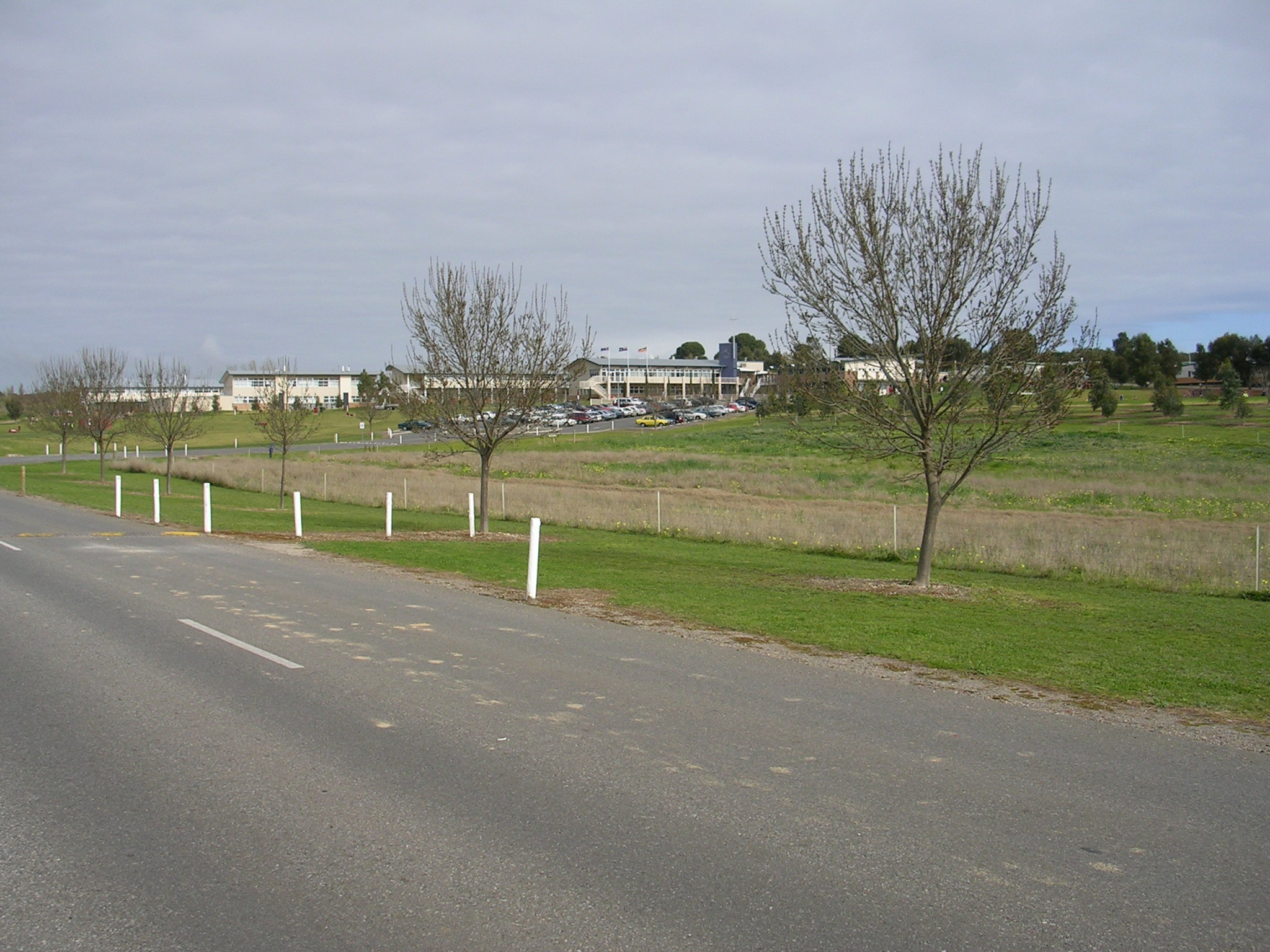 Tatachilla Lutheran College (Photo: Ben Wyschnja)